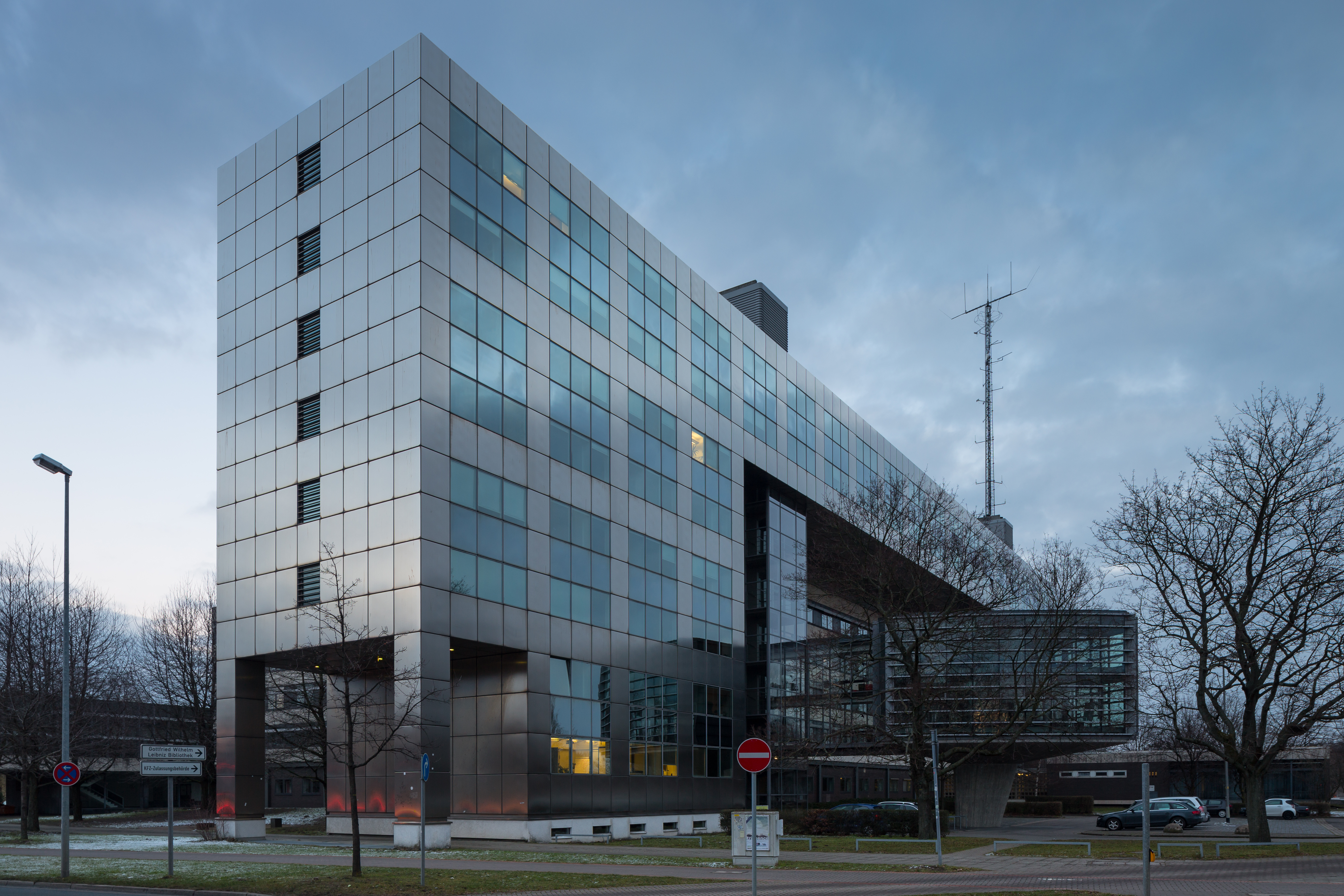 Office building used by various authorities located at Schuetzenplatz square in Calenberger Neustadt, Mitte district of Hanover, Germany.